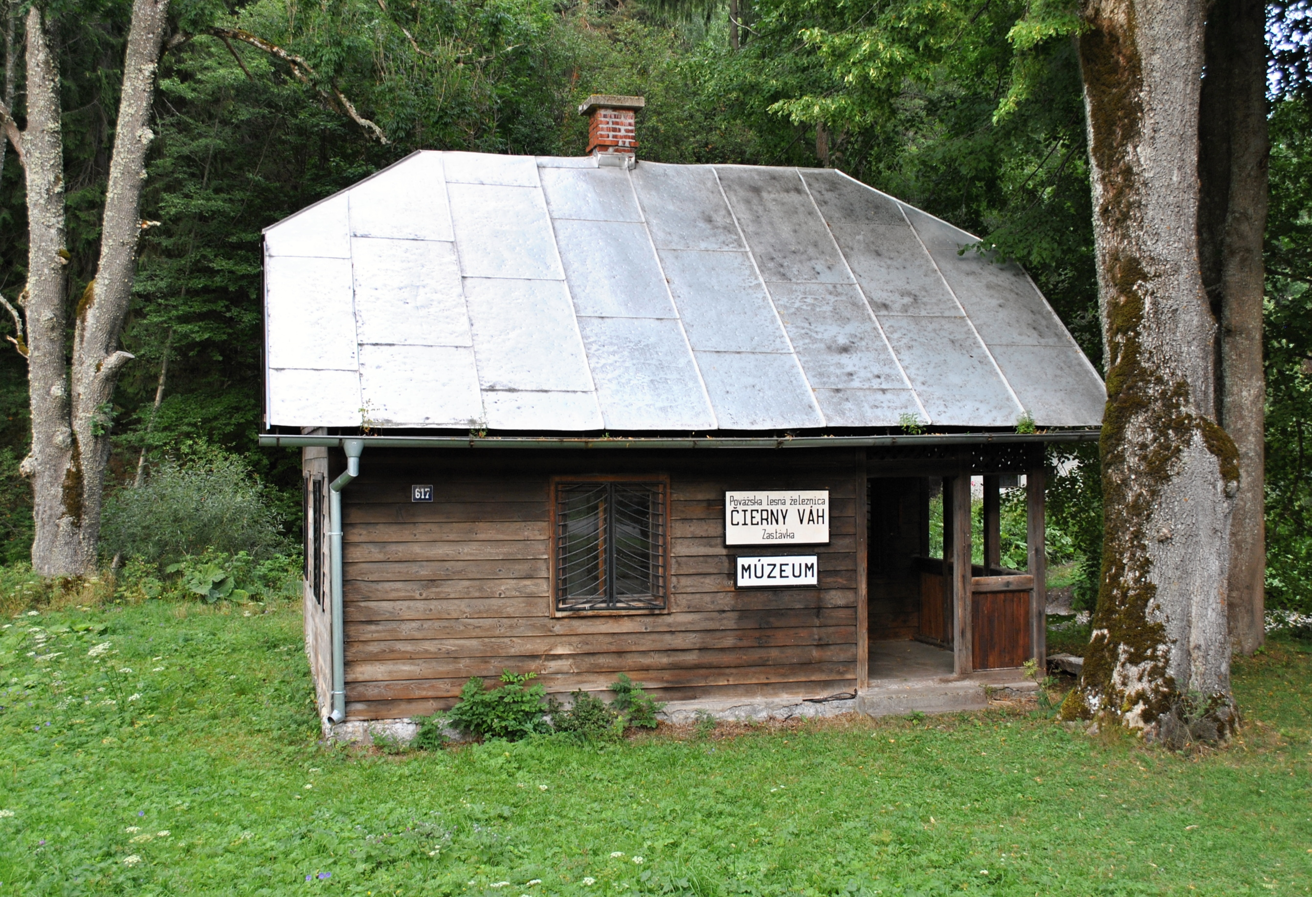 Čierny Váh - station of Vah River Forest Railway, August 2015